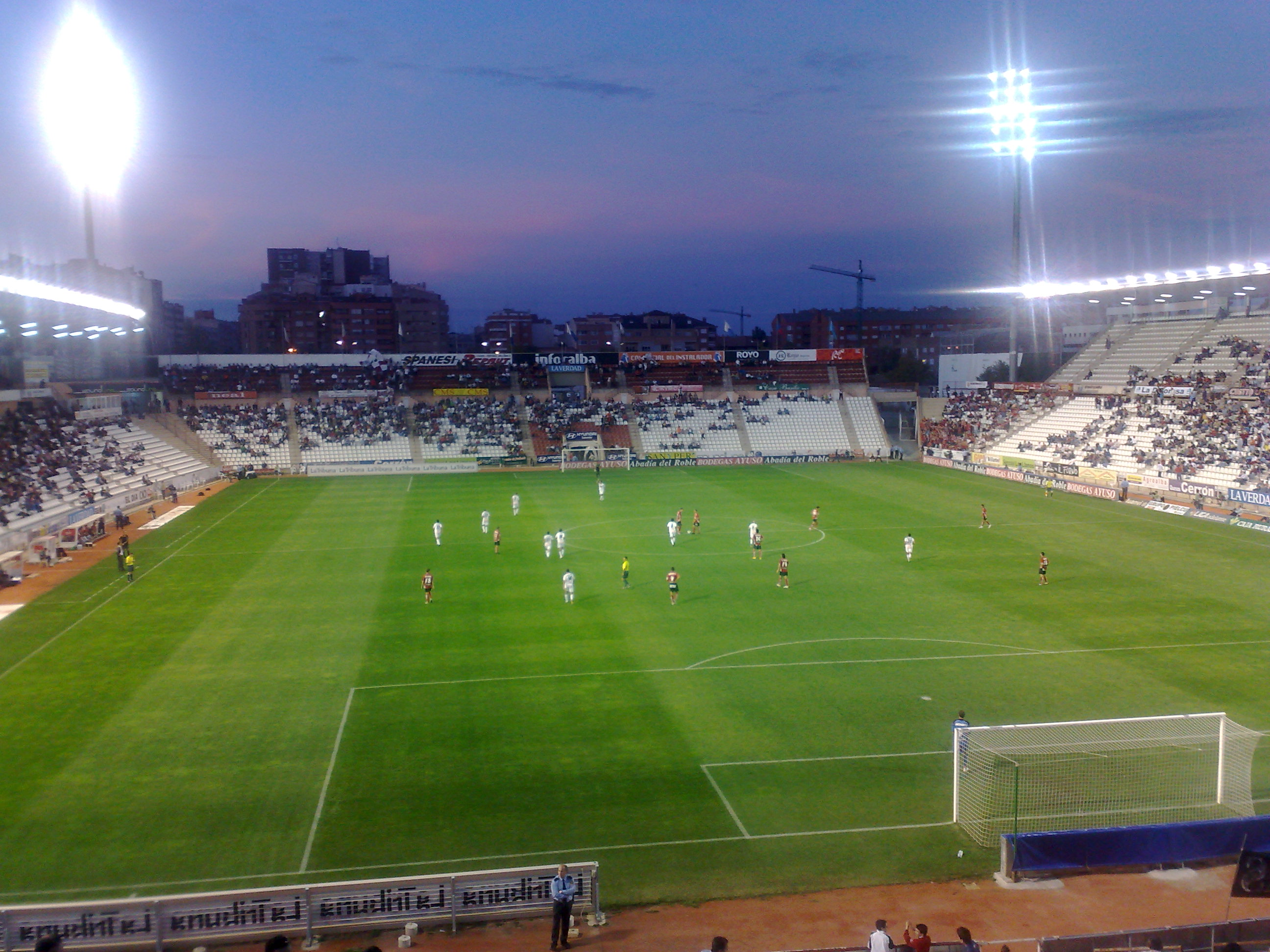 Carlos Belmonte Stadium (Albacete, Spain)